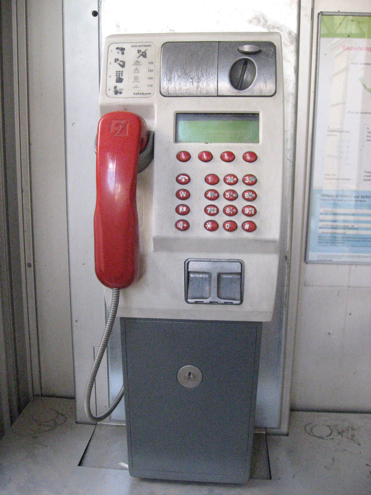 a typical phonebooth in Vienna, Austria from the inside